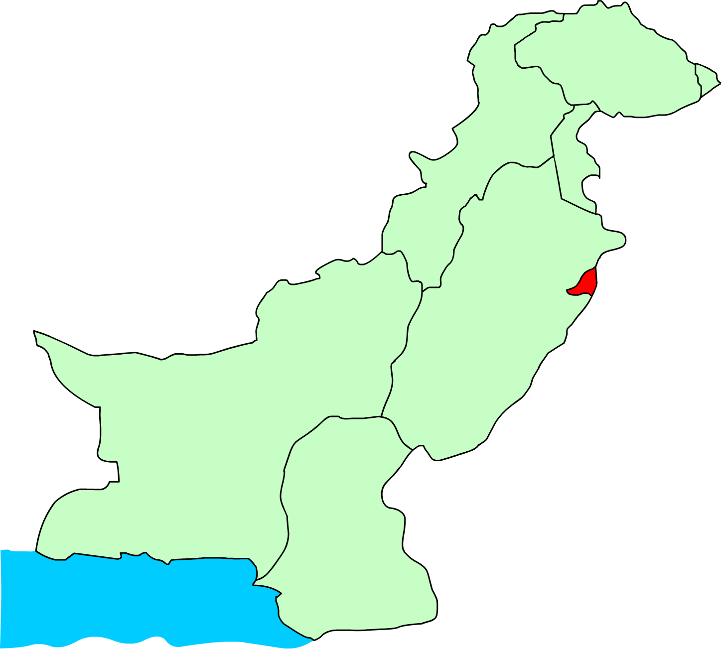 location of Lahore on map